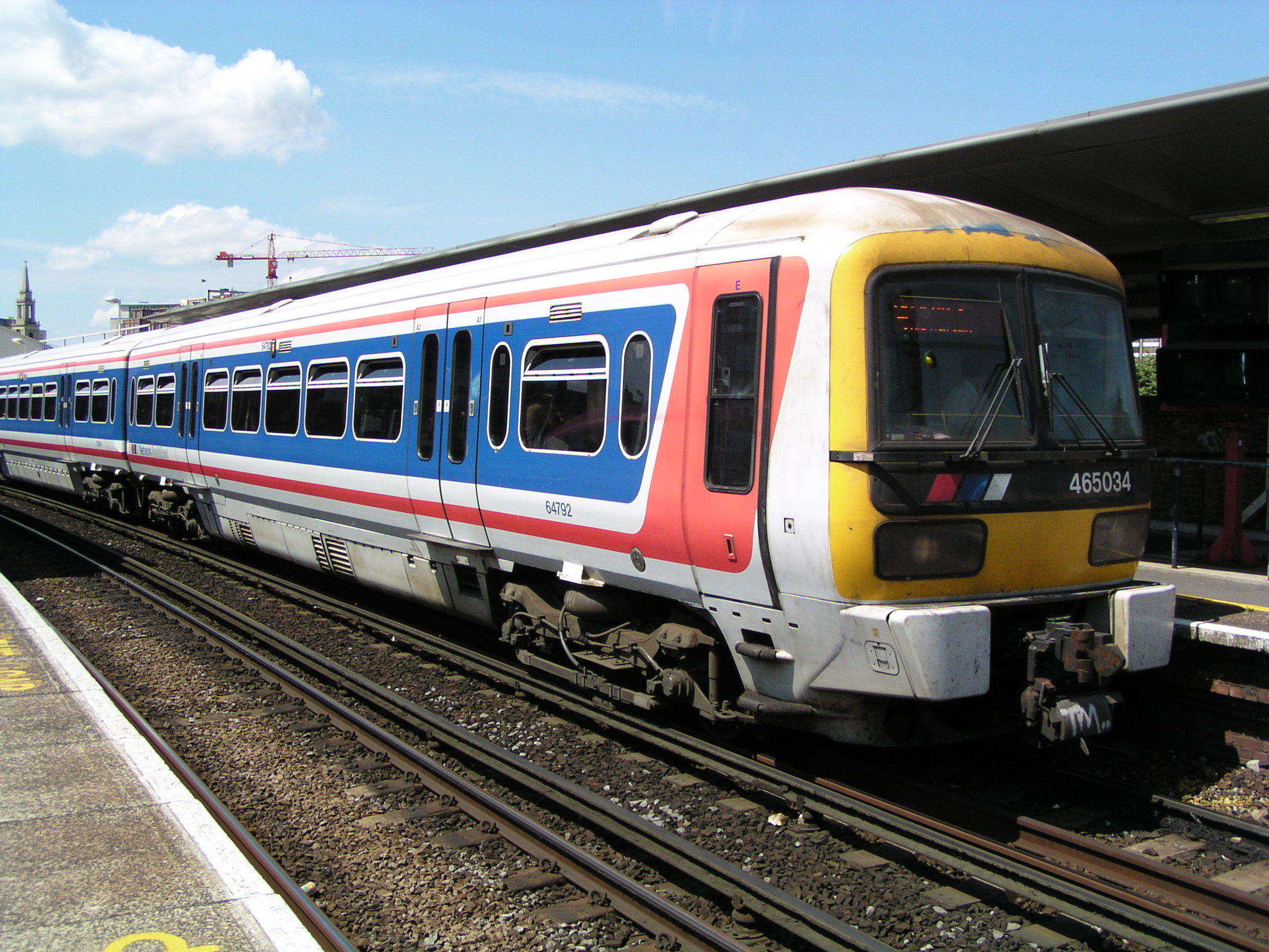 BR Class 465/0, no. 465034 at Waterloo East on 19th July 2003. This unit carries original Network SouthEast livery. Image by Phil Scott (Our Phellap)